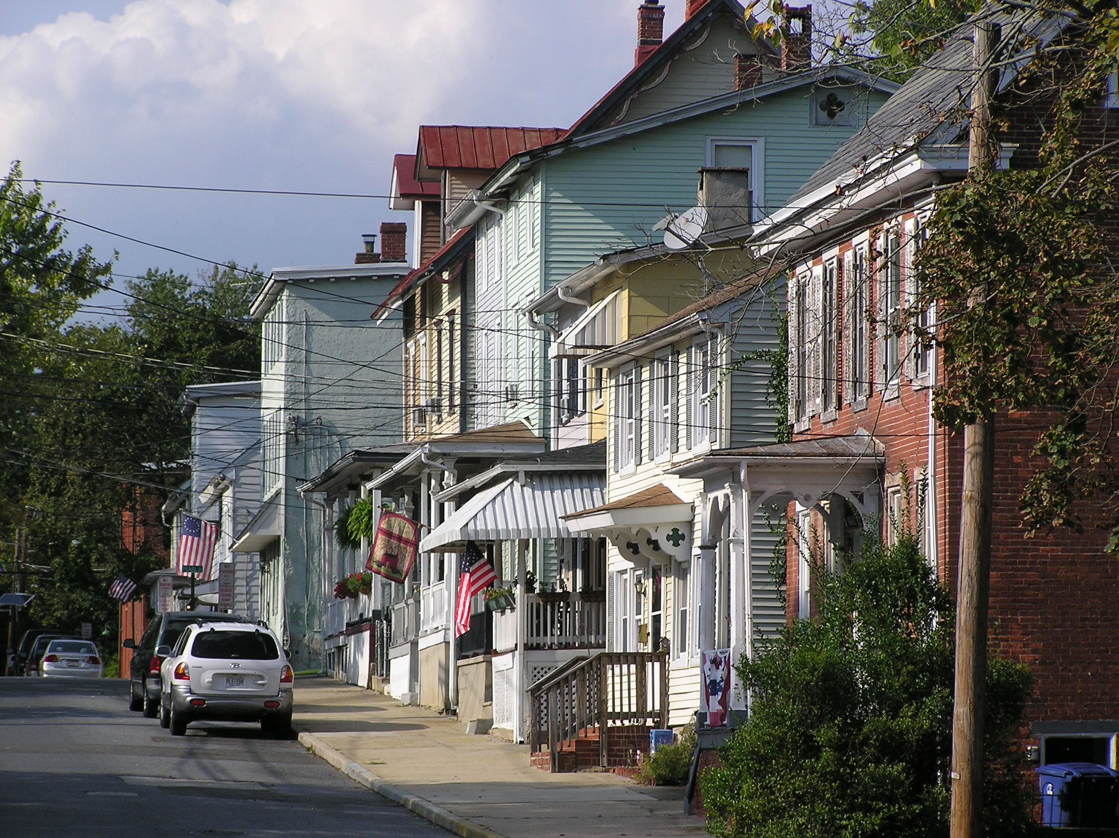 A row of houses on Buttonwood Street in the Mount Holly Historic District, Mount Holly, NJ.